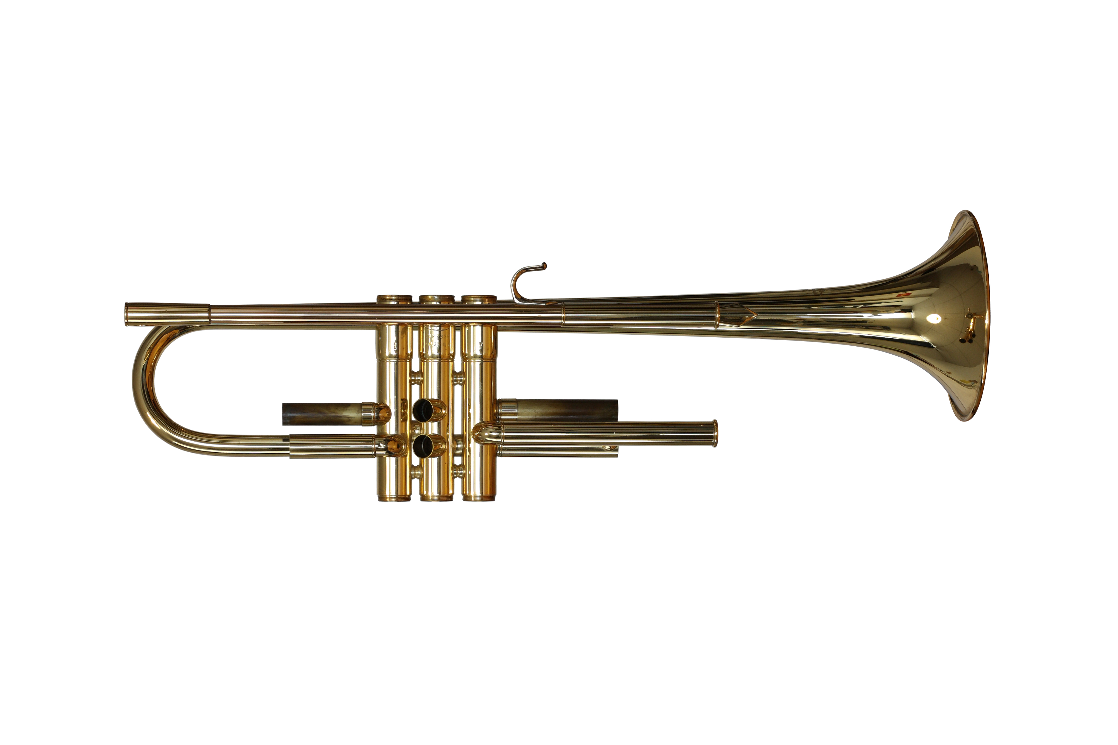 Naked body of a Yamaha YTR6335 B♭ trumpet.